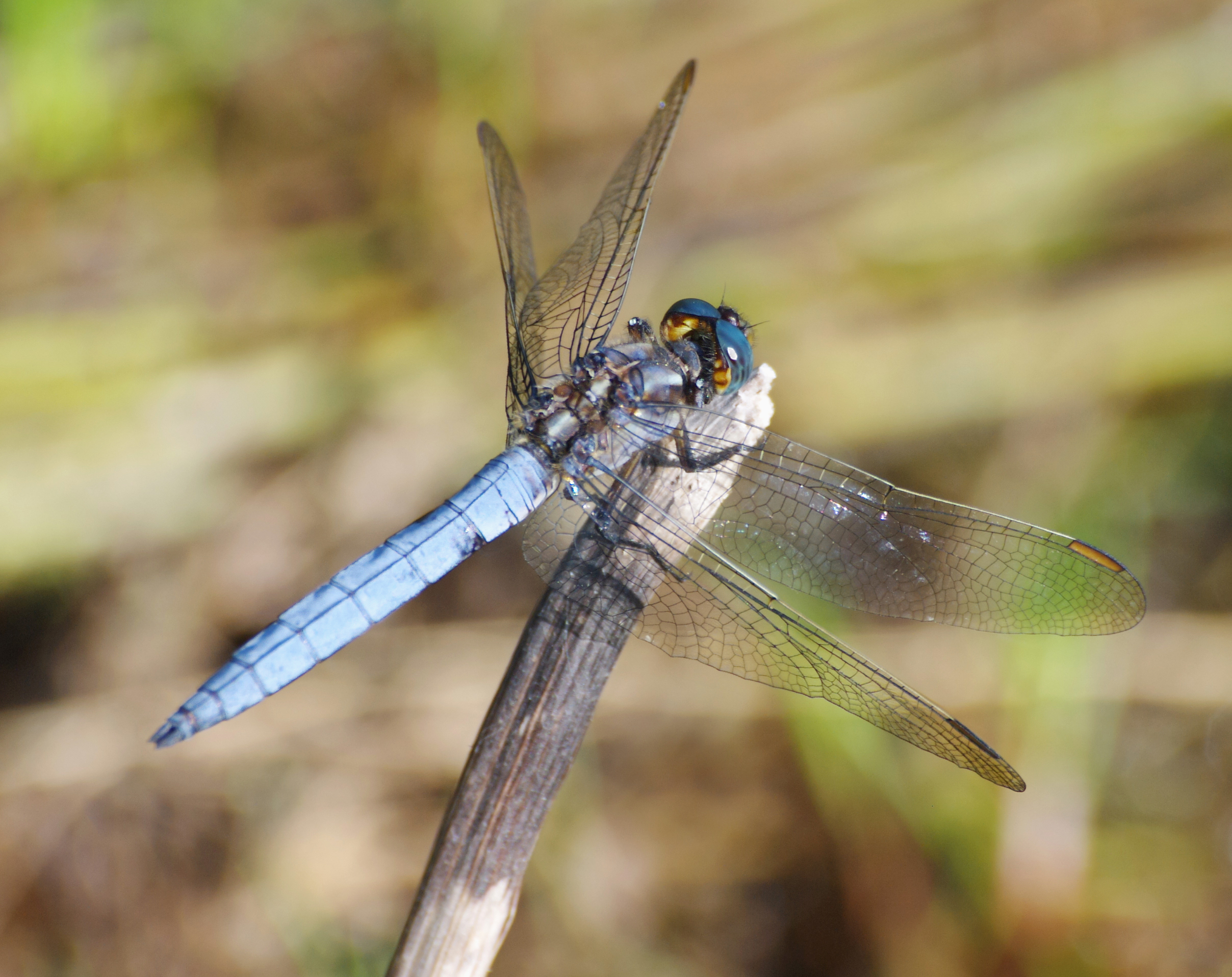 The dragonfly Keeled Skimmer, Orthetrum coerulescens, male specimen resting in an old gravel-pit.